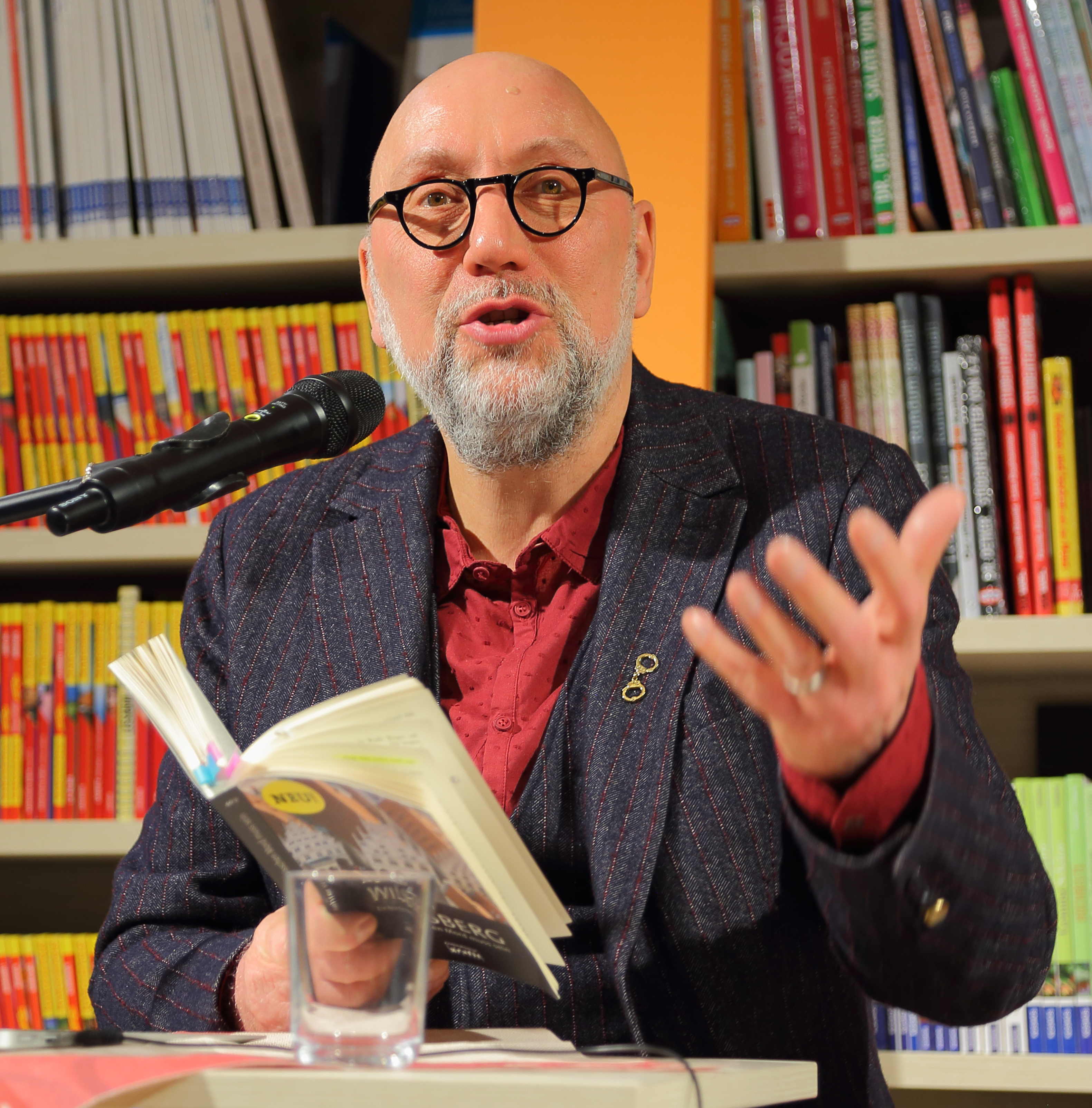 German writer Jürgen Kehrer at Volk Book Store (Buchhandlung Volk) in Recke, Kreis Steinfurt, North Rhine-Westphalia, Germany. This evening Kehrer read from his new Wilsberg crime novel Ein bisschen Mord muss sein.